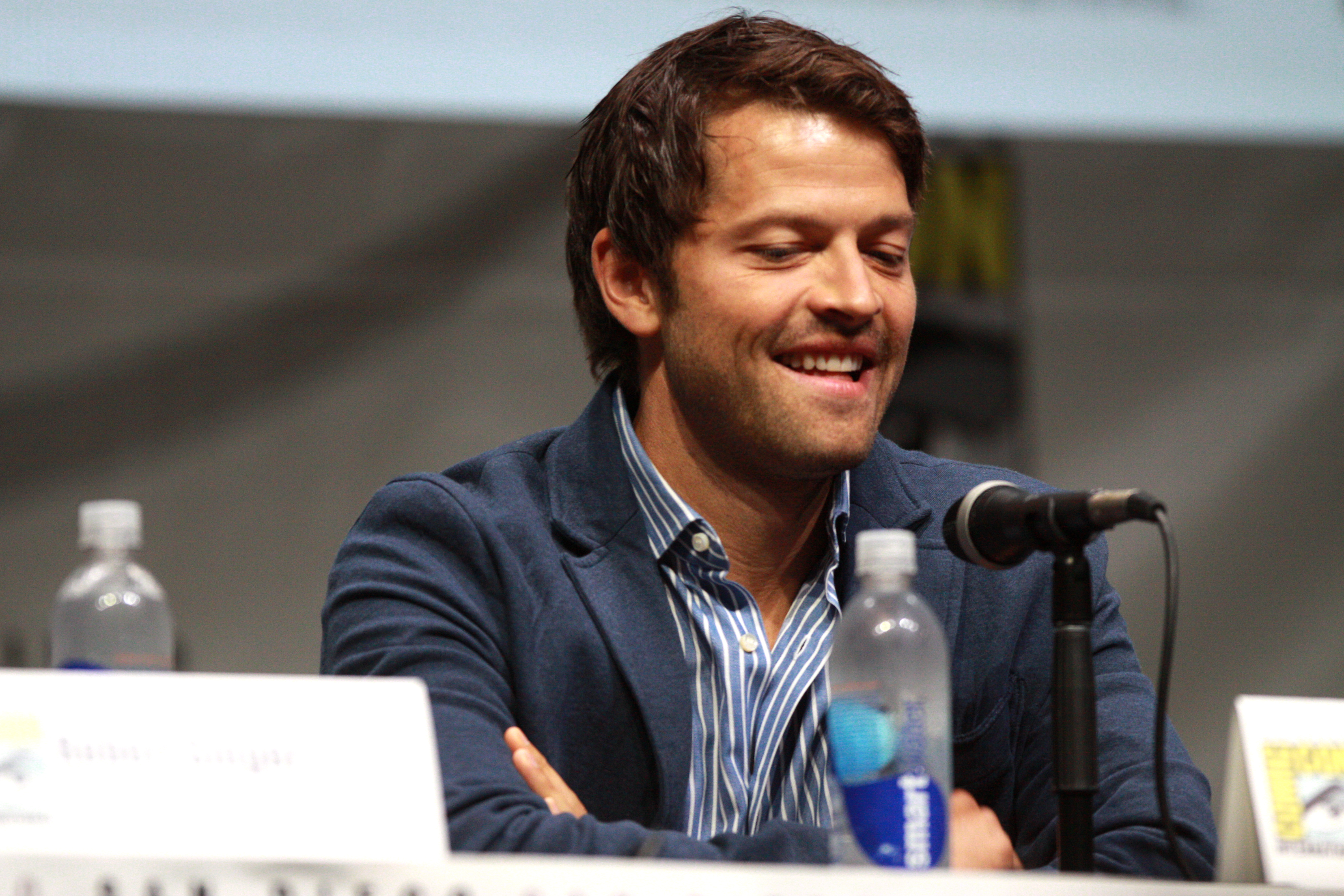 Misha Collins speaking at the 2013 San Diego Comic Con International, for "Supernatural", at the San Diego Convention Center in San Diego, California.